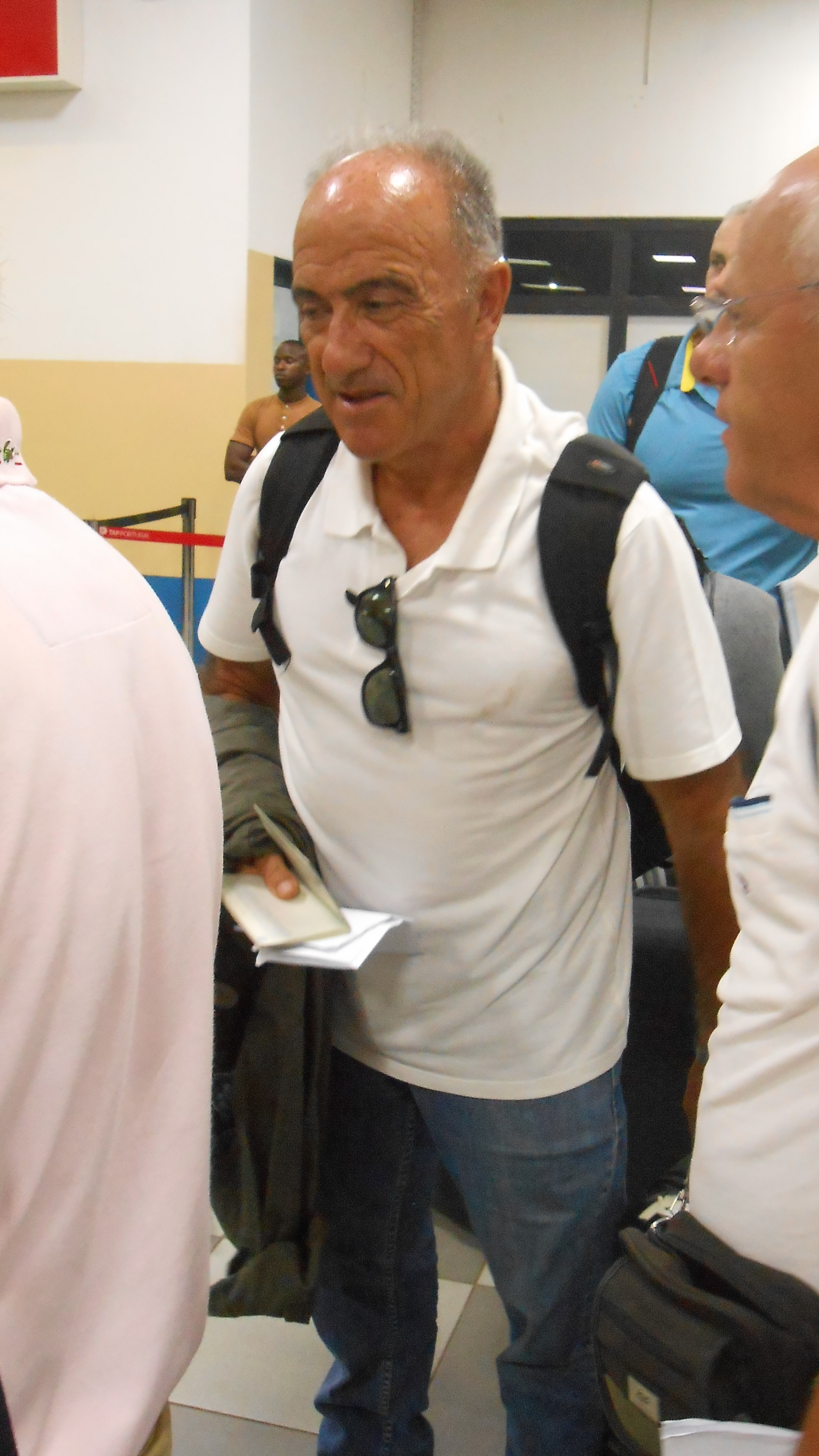 The known portuguese photographer Alfredo Cunha at the Bissau airport in 2017, november 9th, waiting in the queue to check in for a home flight to Lisbon.